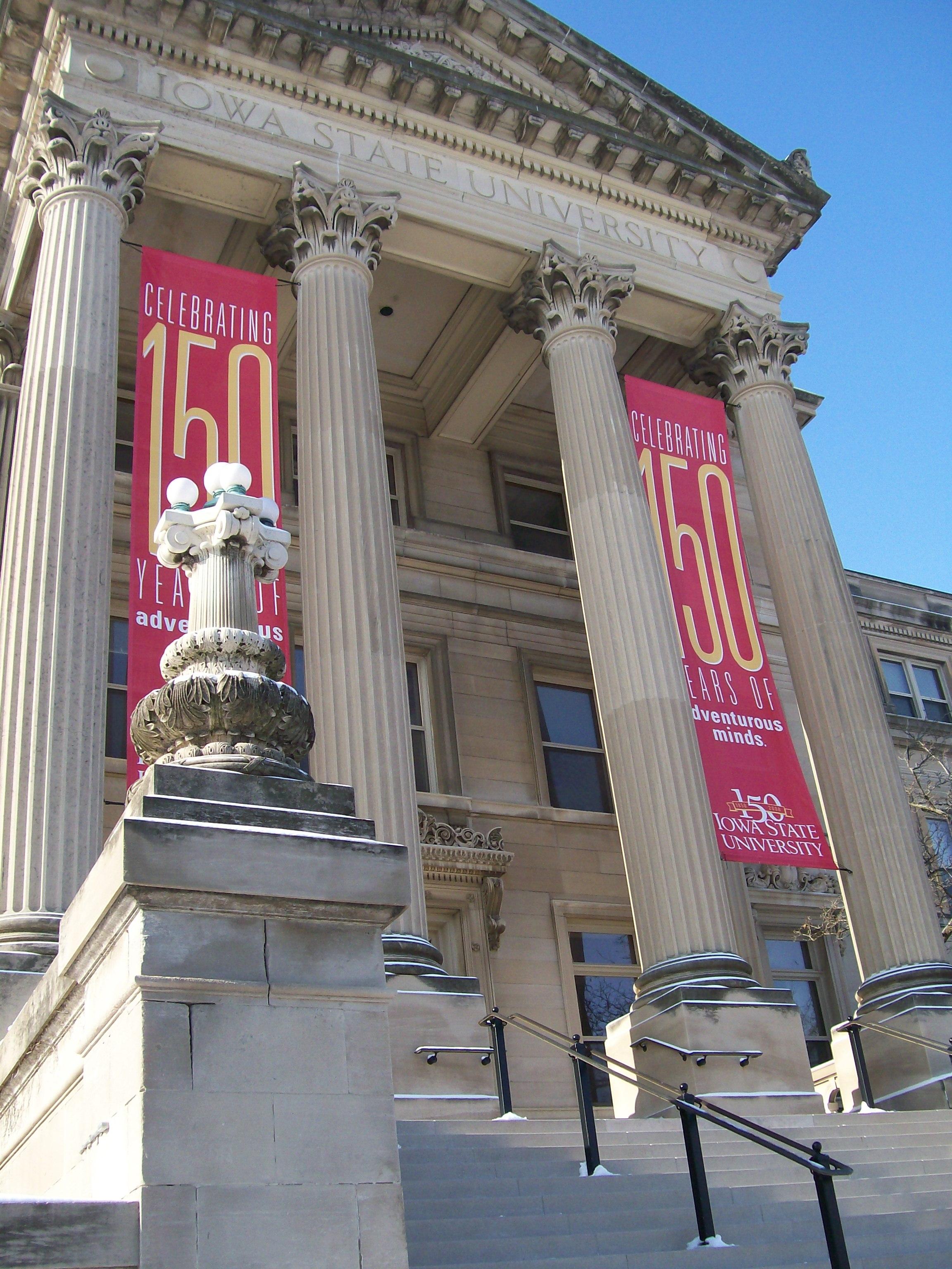 Beardshear